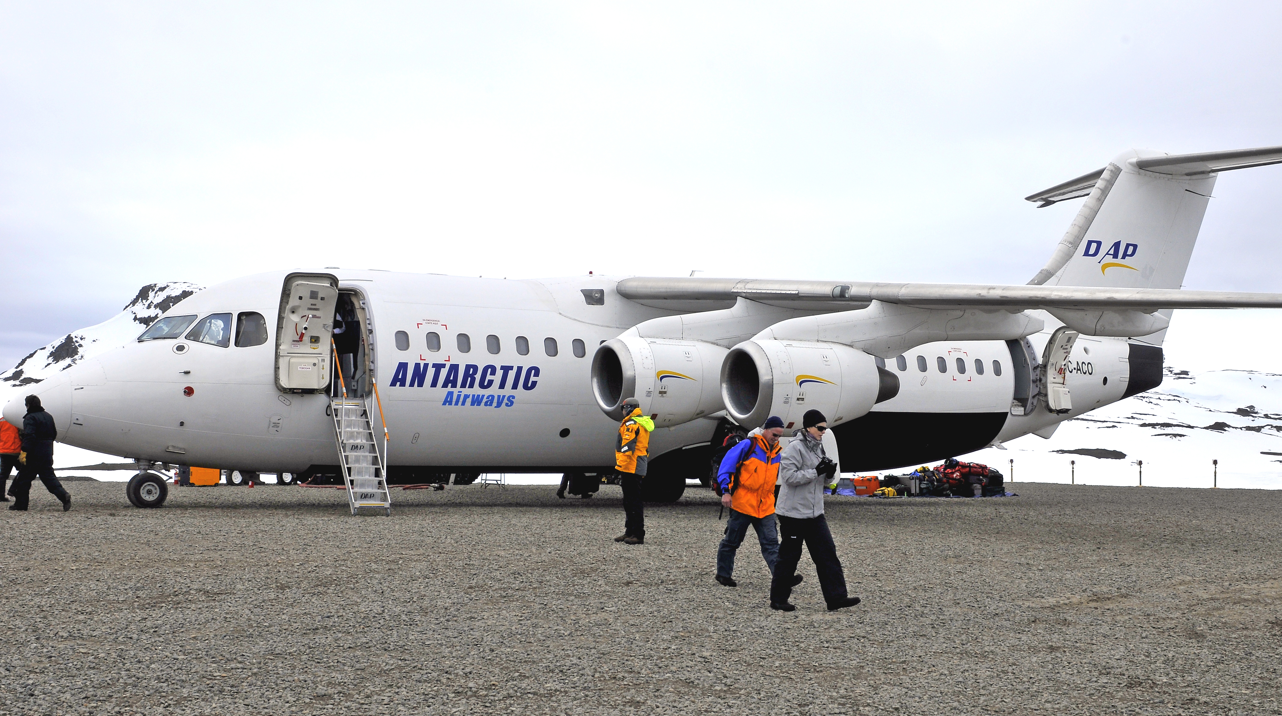 Touristic aircraft at the "Teniente Rodolfo Marsh Martín" airfield. King George Island, South Shetland Islands, Antarctica